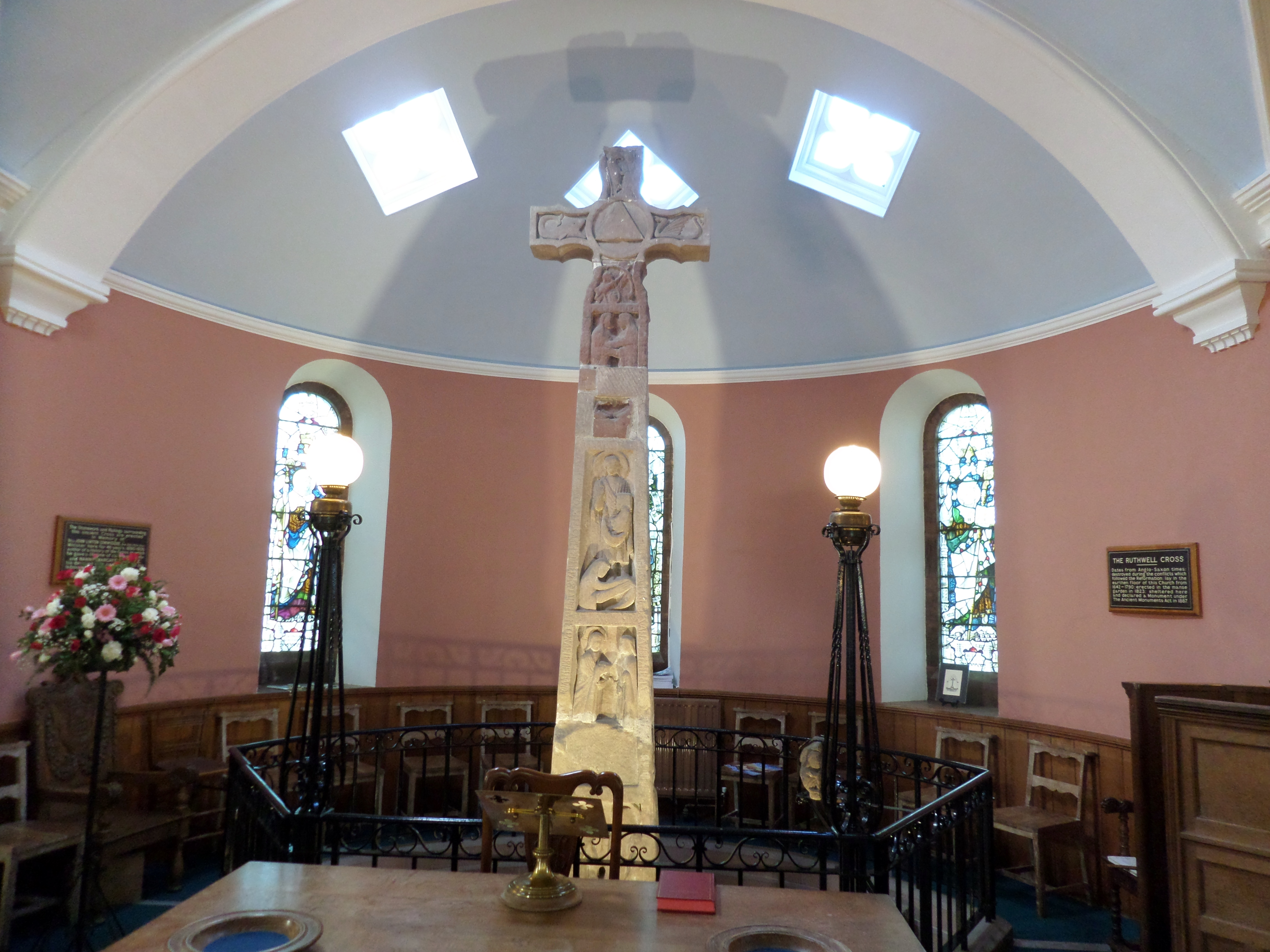 Ruthwell Cross, Ruthwell Church, Dumfries & Galloway, Scotland. 7th Century Anglian preaching cross telling the story in carvings of the life of Christ.